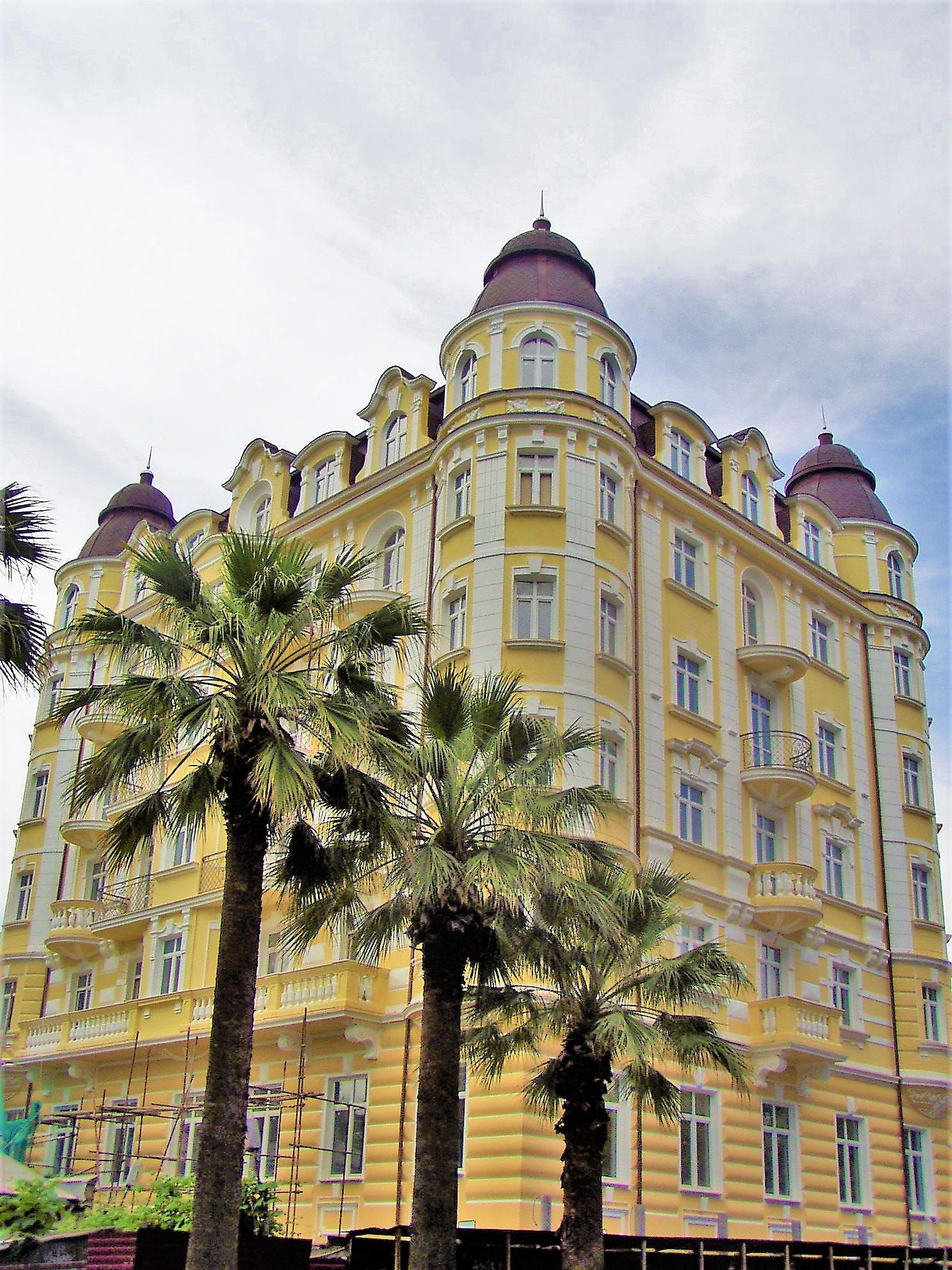 Morskoy Lane 9, Sochi